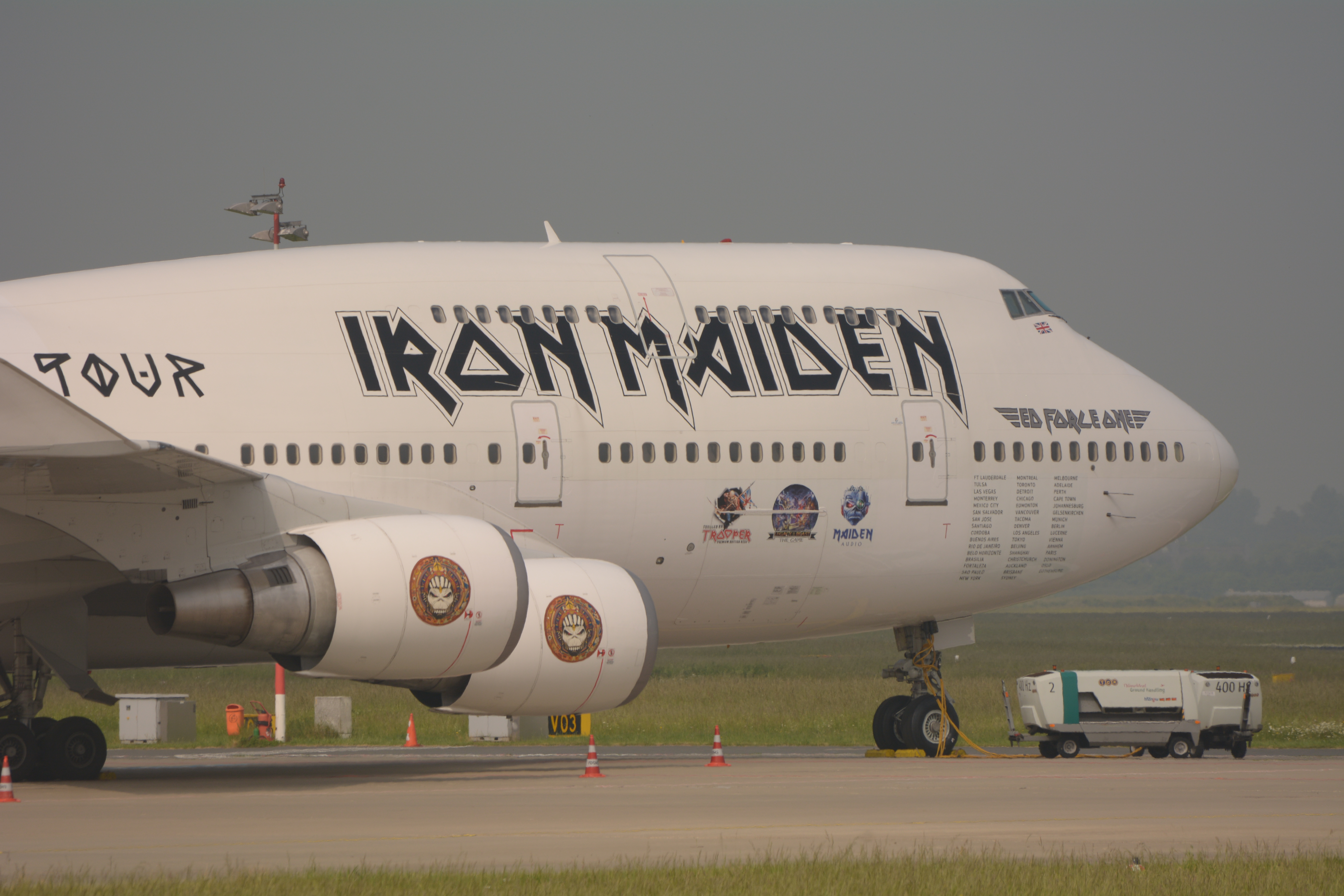 Ed Force One at Airport DUS - front part with list or tour cities